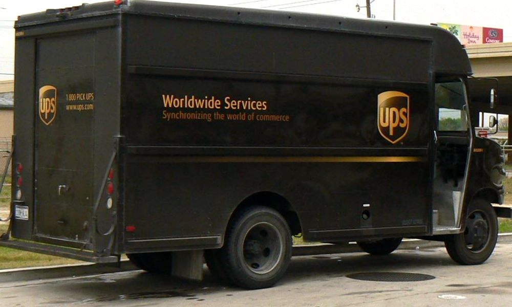 A United Parcel Service Van (package car in their terminology) from the rear quarter. Photo originally taken at the intersection of SH 358/South Padre Island Drive and Flour Bluff Drive in Corpus Christi, TX. Image cropped from original.